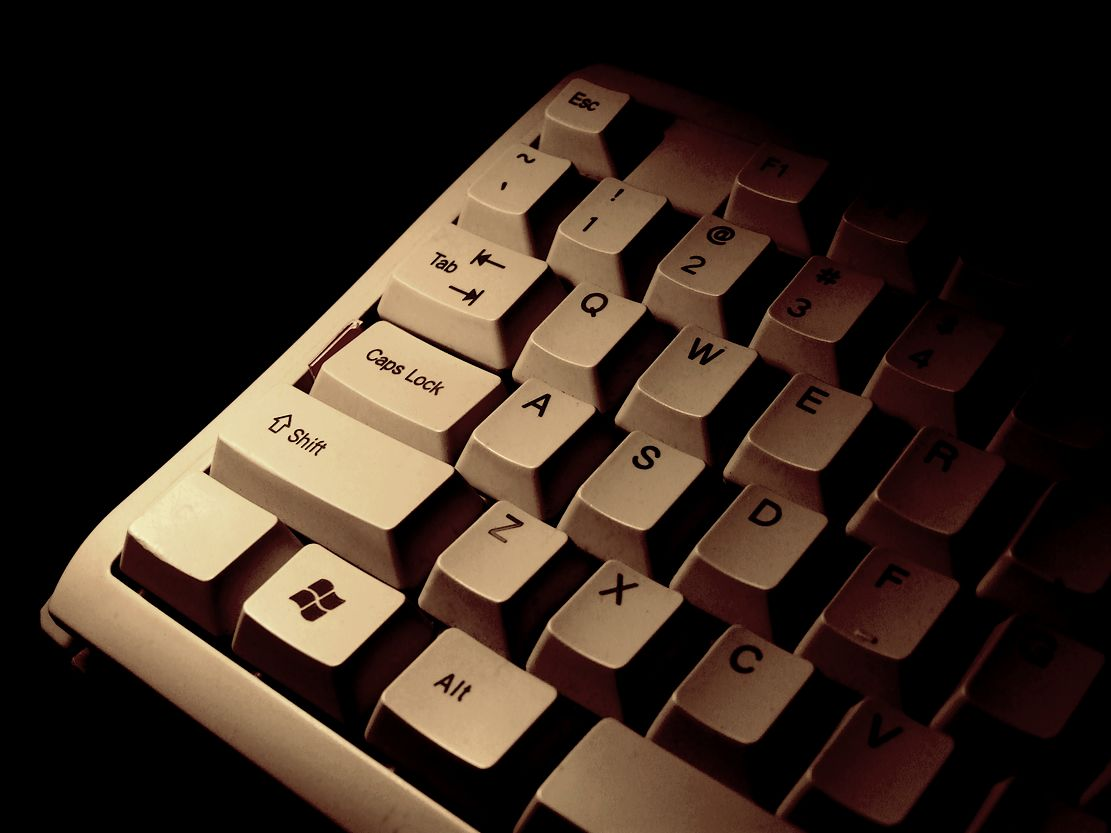 "caps lock" physically blocked in order to prevent incidental pressing